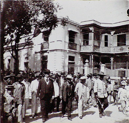 Cipriano Castro during his entrance to Caracas in 1899.